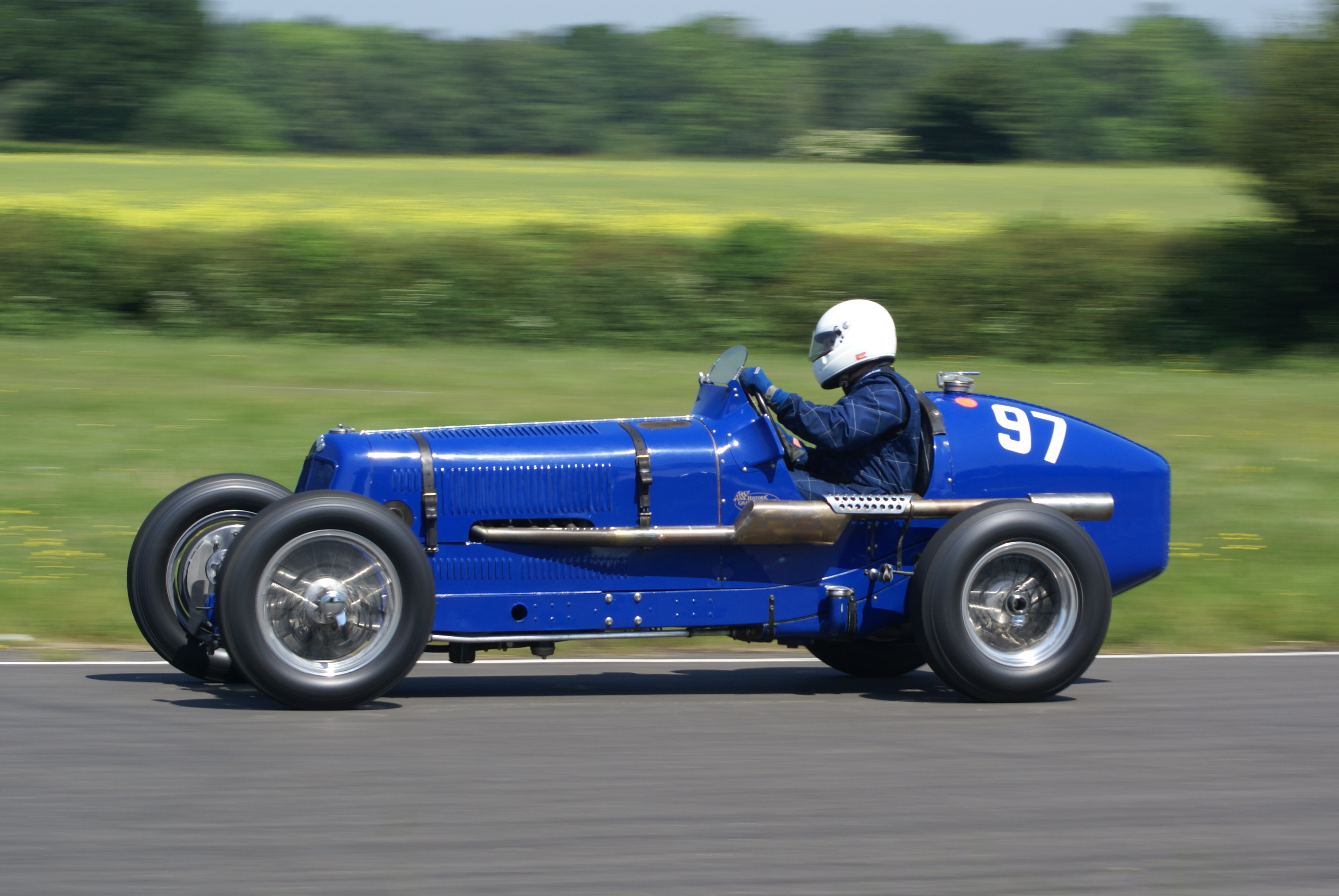 1937 E.R.A. 12C driven by Terry Crabb at the VSCC Speed Trials held at Curborugh sprint course.